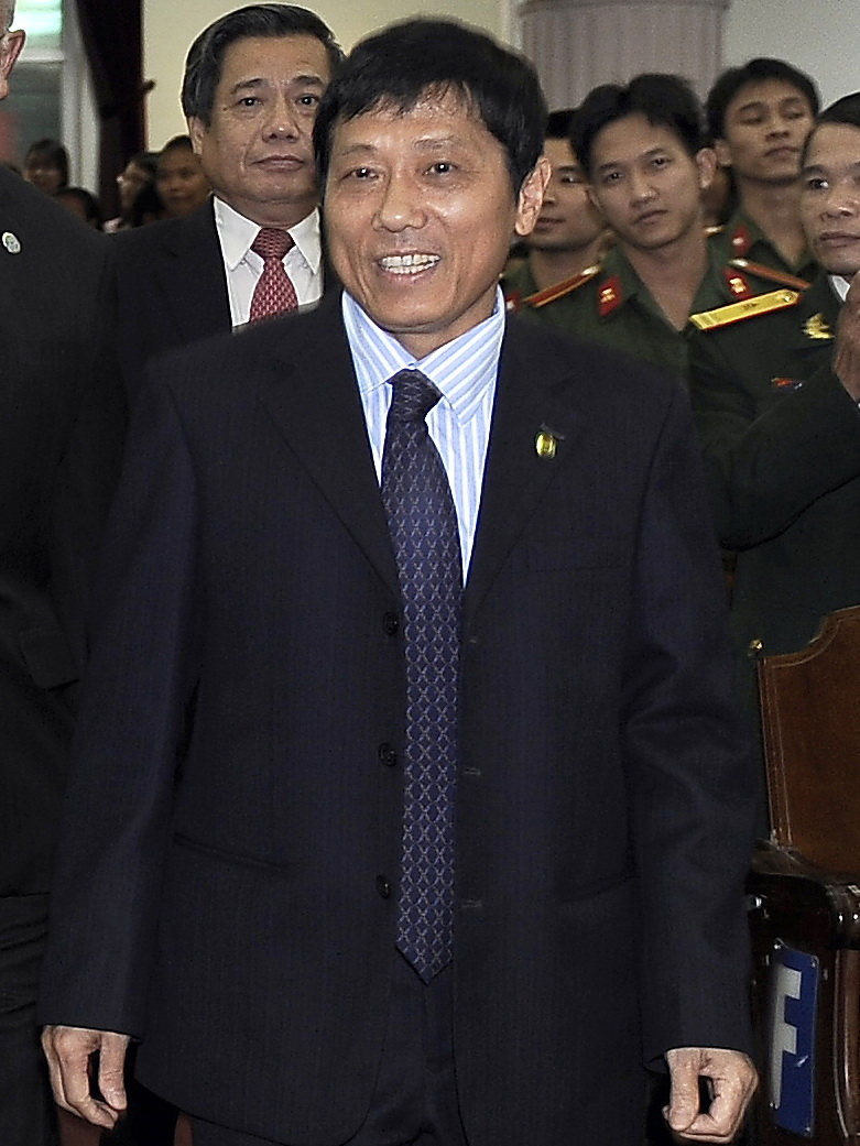 Mai Trong Nhuan, President of the Hanoi National University.